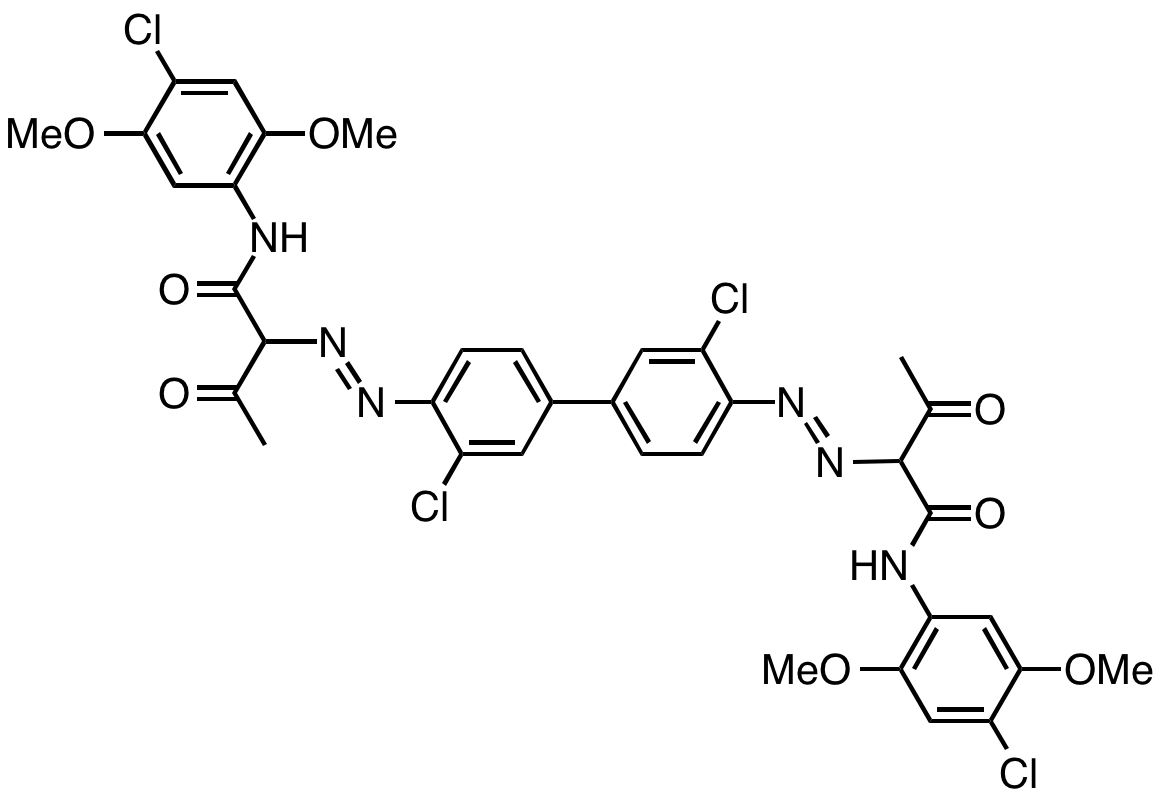 Pigment Yellow 83